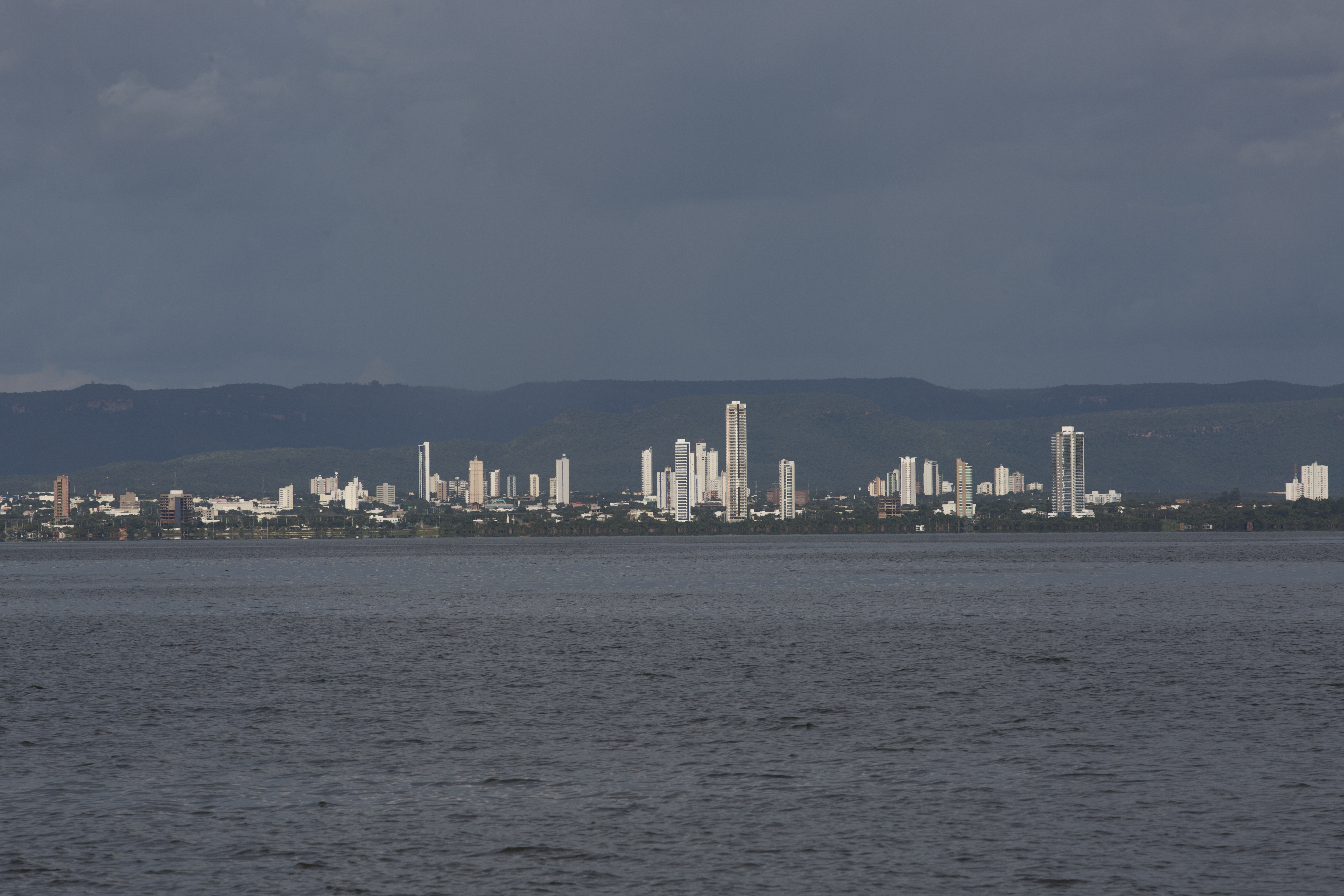 Palmas, capital of the Brazilian state of Tocantins.